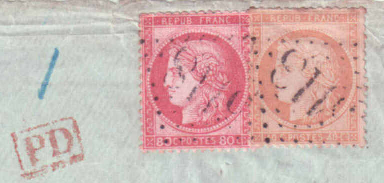 Japan - 1873 - BOINVILLE letter - part 2